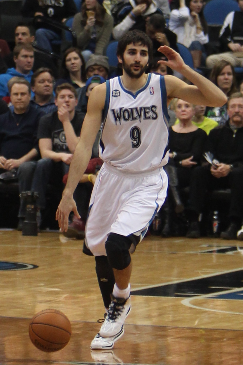 Ricky Rubio at the Target Center